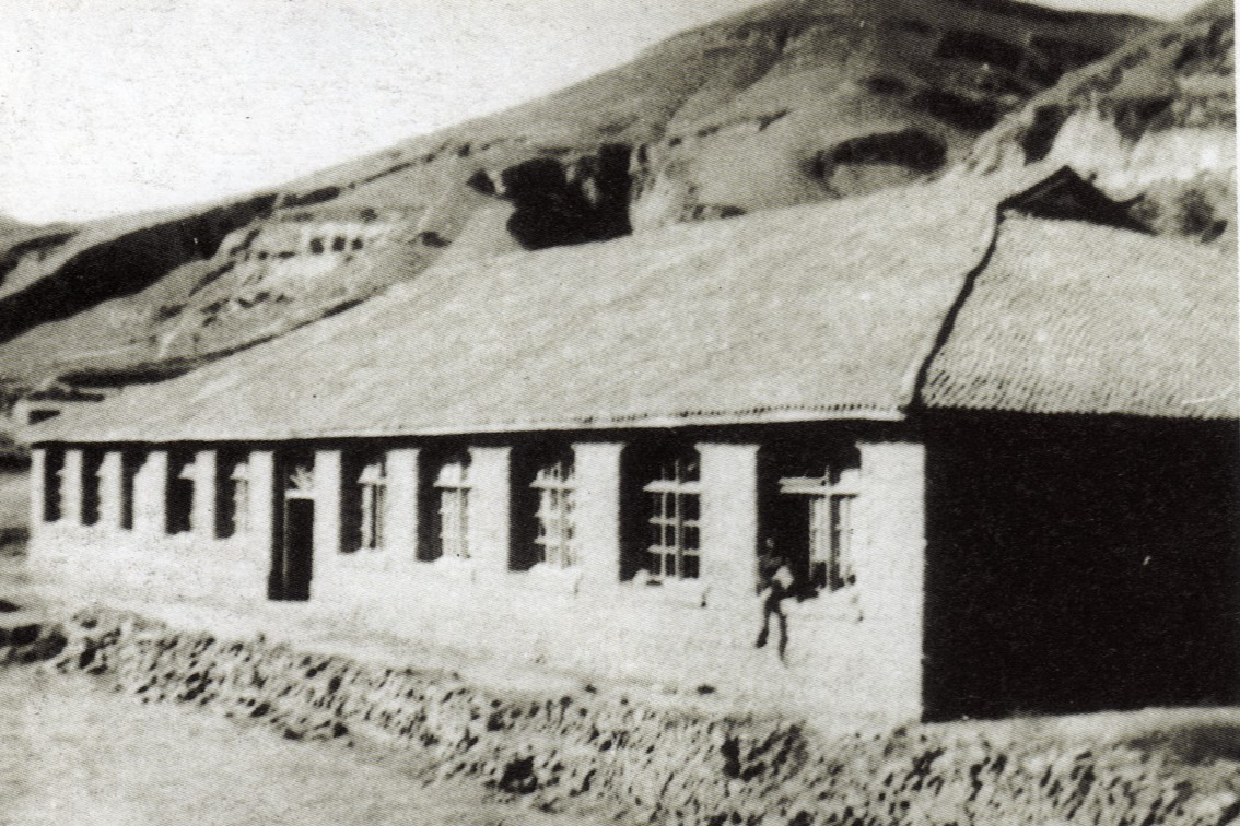 Yan'an Academy of Natural Sciences, House of Science and Technology.